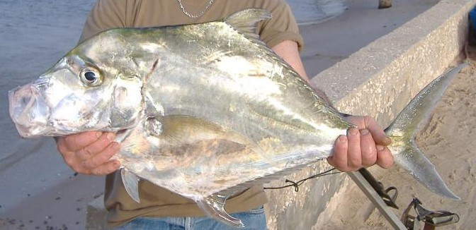 Alectis alexandrina, taken off Cape Coast, Ghana